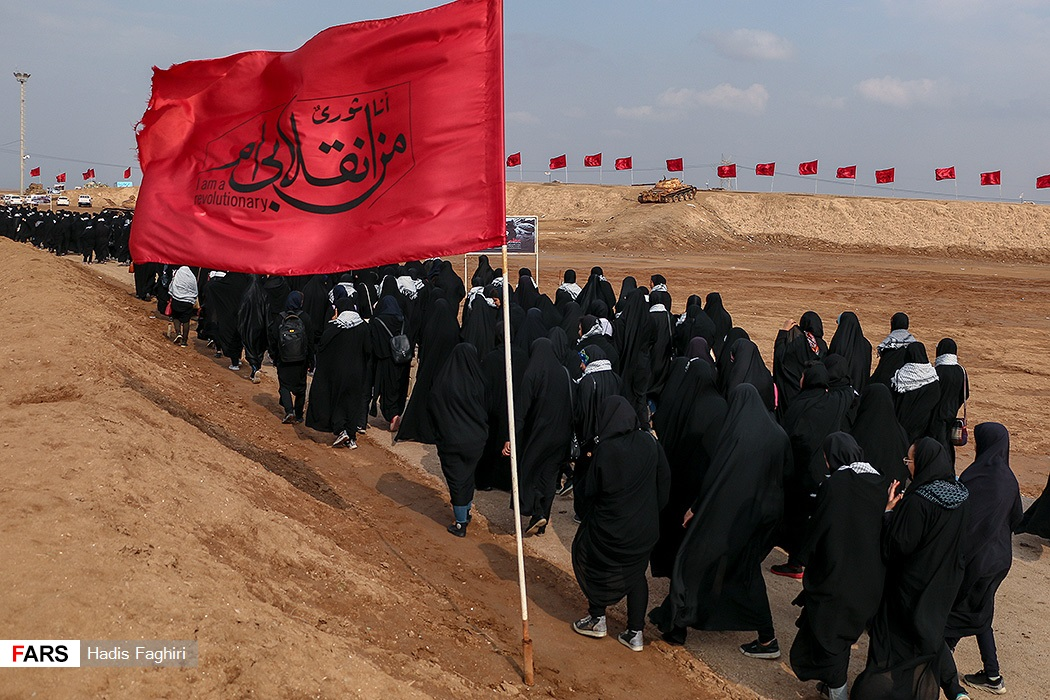 Iranian Female students in the Rahiane nur Caravan- December 2018